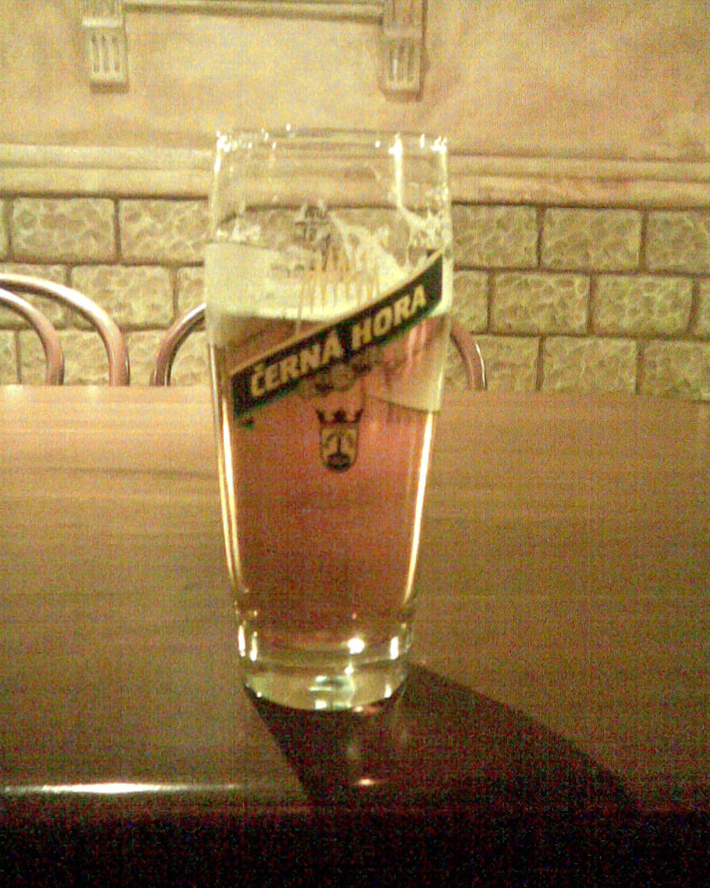 Beer Černá Hora